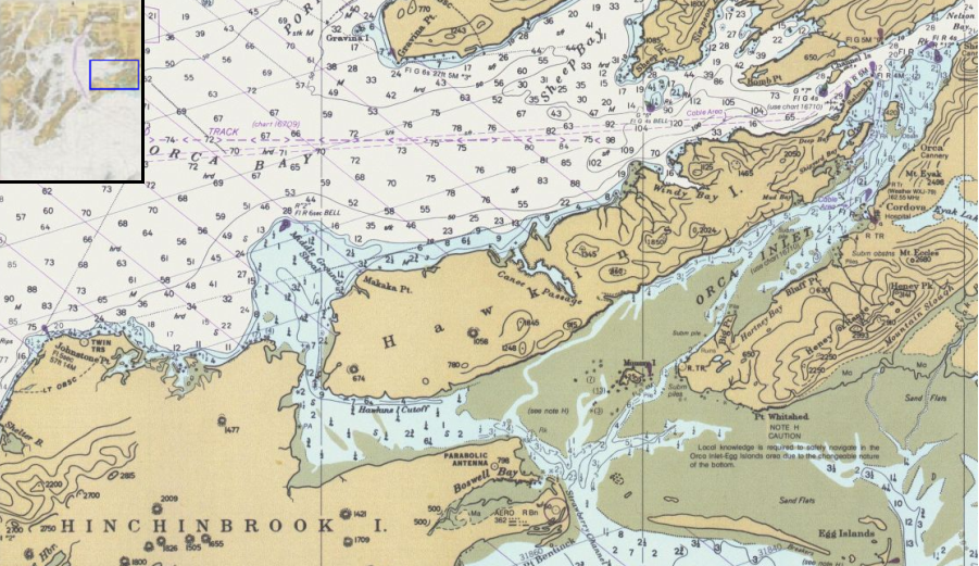 Detail of Coast Survey Prince William Sound chart 16700-1-1992 [1] showing Orca Bay, Orca Inlet, Cordova, and Hawkins Island